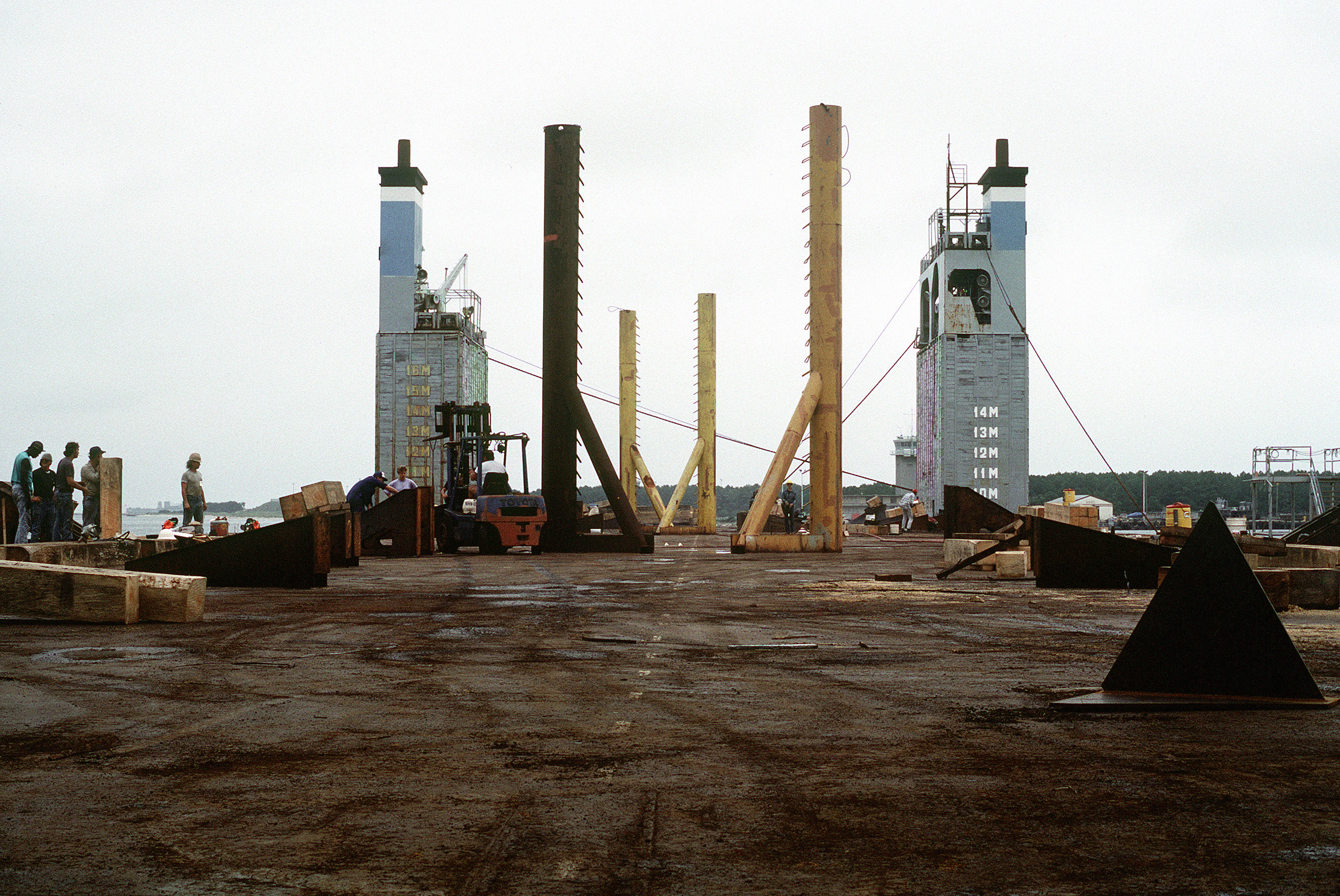 Crew members position blocks on the deck of the HEAVY LIFT ship SUPER SERVANT 3. The blocks will support ocean minesweepers and other equipment which will be anchored to the deck for transport to the Persian Gulf in response to Iraq's invasion of Kuwait. Location: NAVAL AIR STATION, NORFOLK, VIRGINIA (VA) UNITED STATES OF AMERICA (USA).